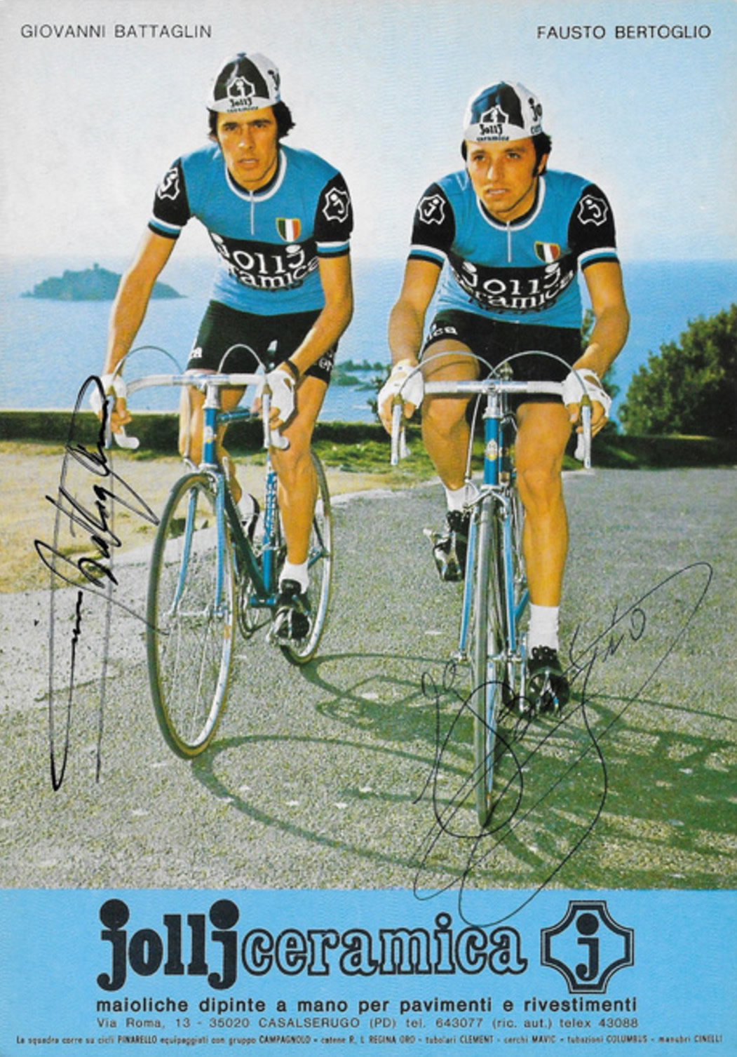 Giovanni Battaglin and Fausto Bertoglio 1976 Jollj Ceramica postcard